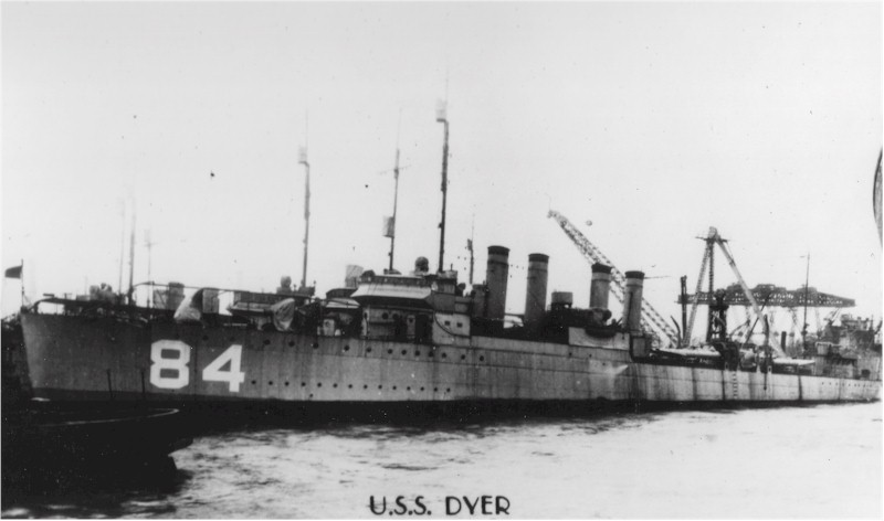 The U.S. Navy destroyer USS Dyer (DD-84) in port, circa 1920.